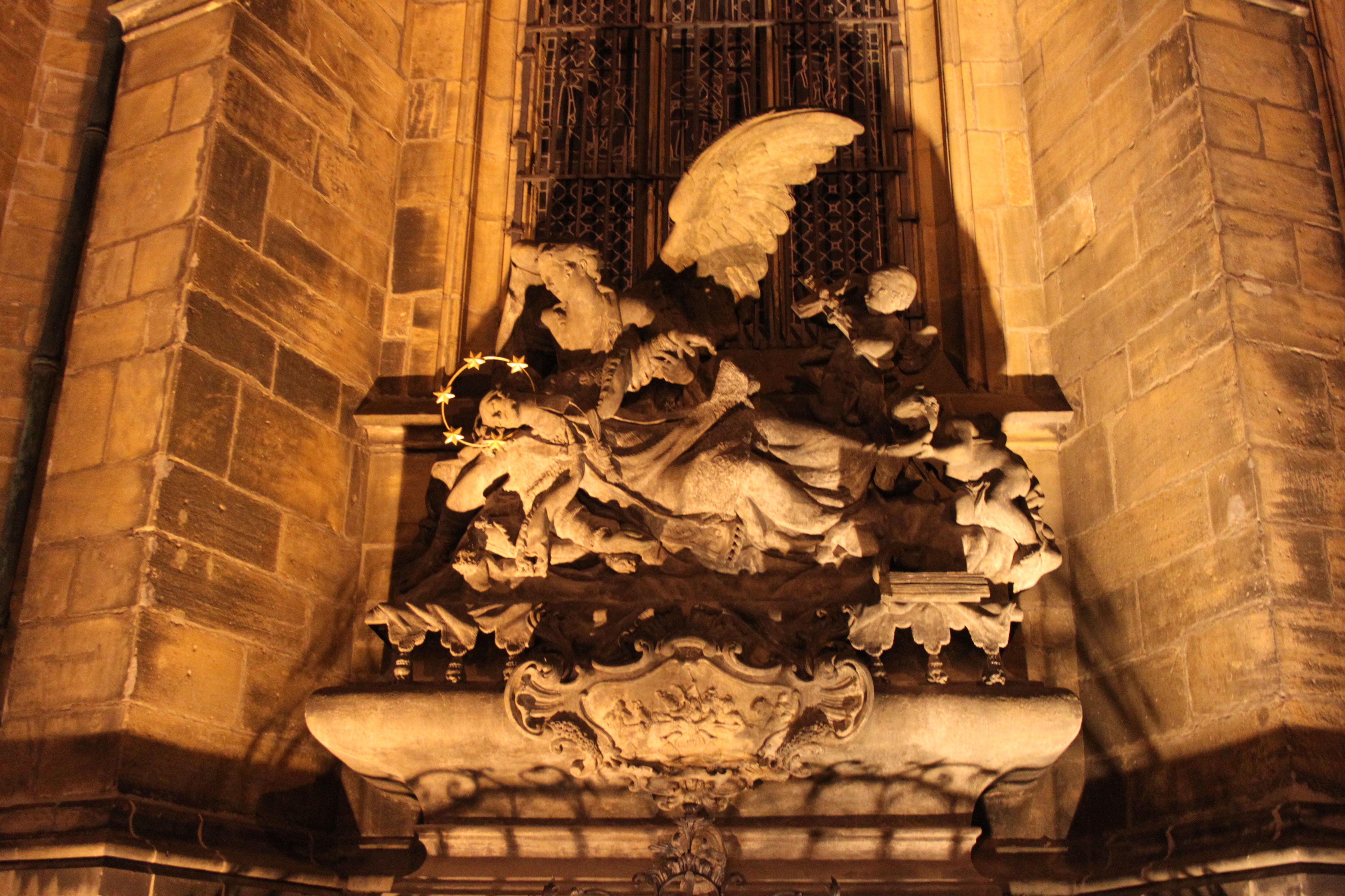 Statue Death of St. John of Nepomuk, St. Vitus Cathedral in Prague